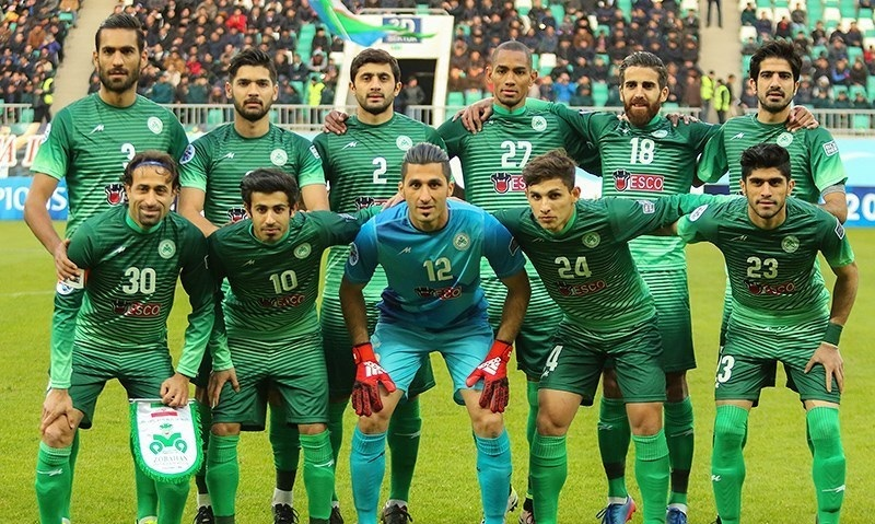 Zob Ahan team